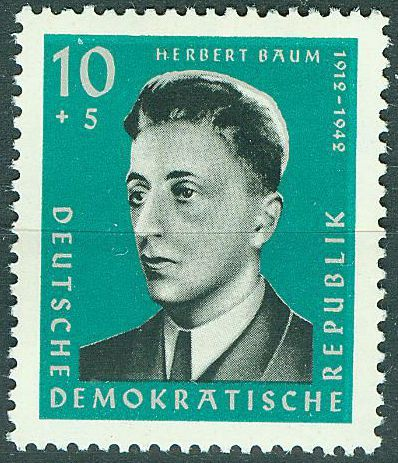 Herbert Baum - a Jewish member of the German resistance against National Socialism.